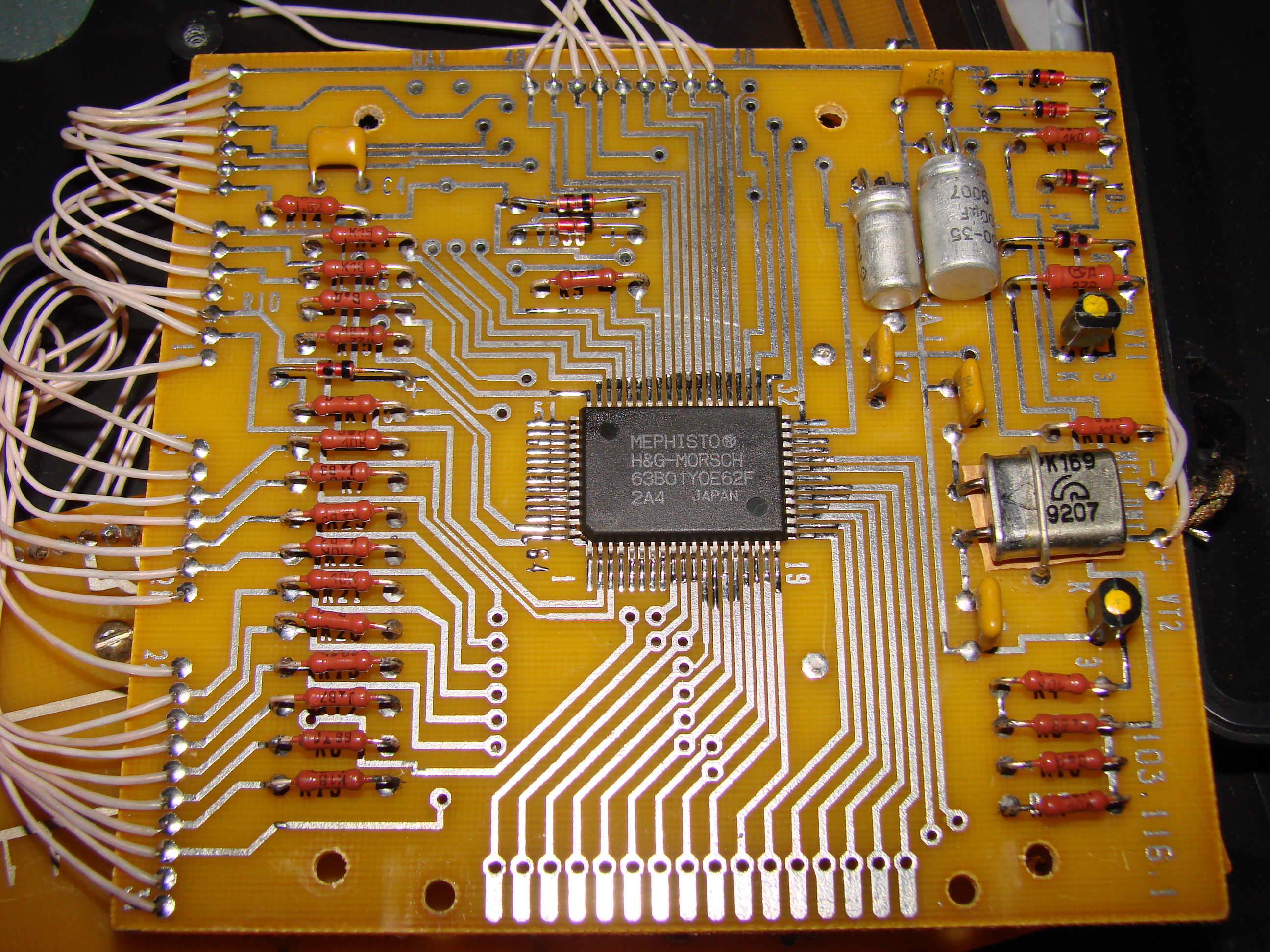 Frans Morsh is a developer of chess computer programs. His name is written on this integrated circuit.